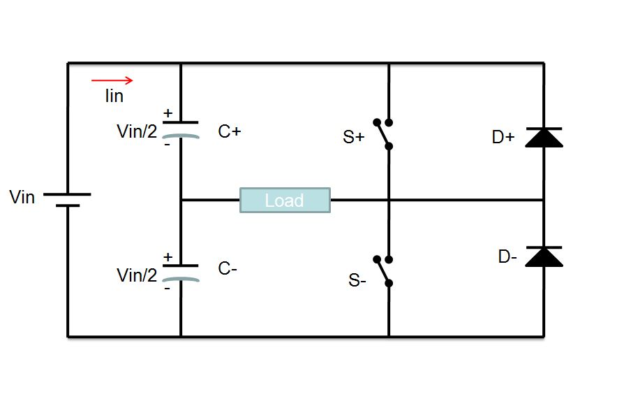 Single Phase Half Bridge Inverter